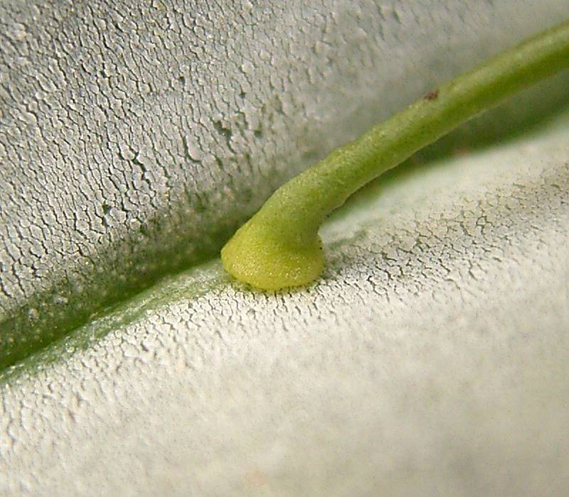 Viscum minimum on Euphorbia horrida, day 30 after sowing